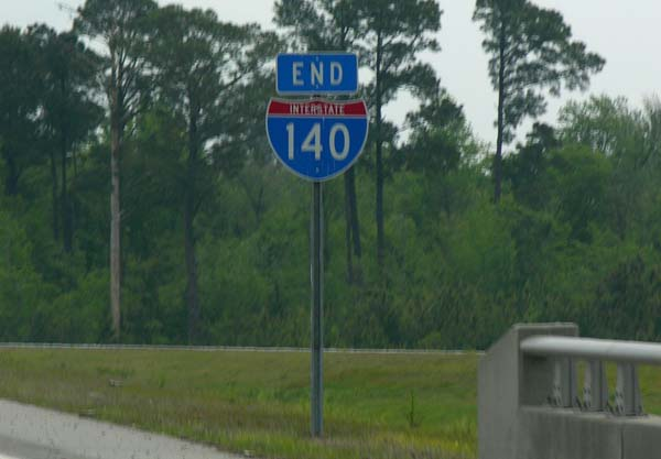 End shield for Interstate 140 east at Interstate 40 north of Wilmington, North Carolina.